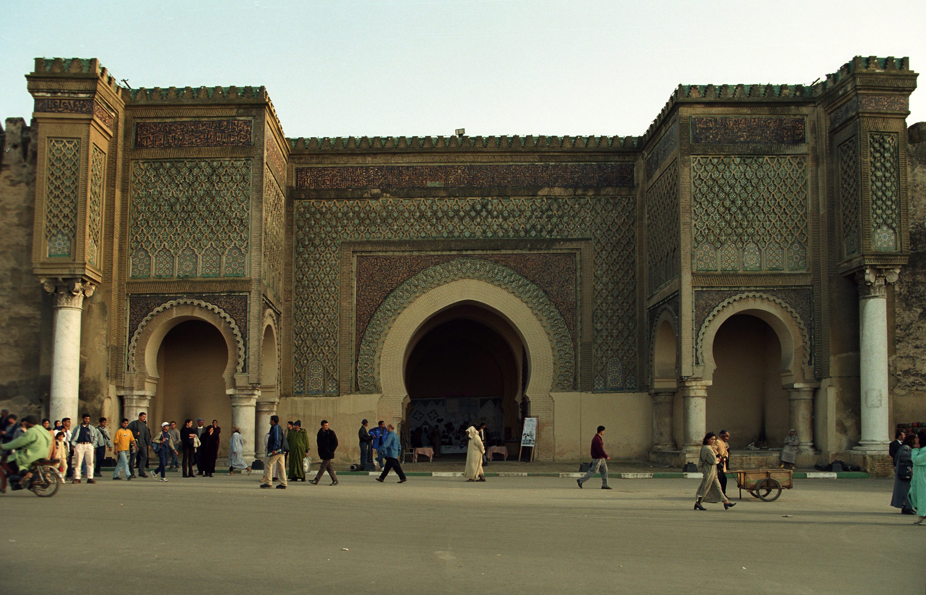 Bab el Mansour gate, Meknes, Morocco